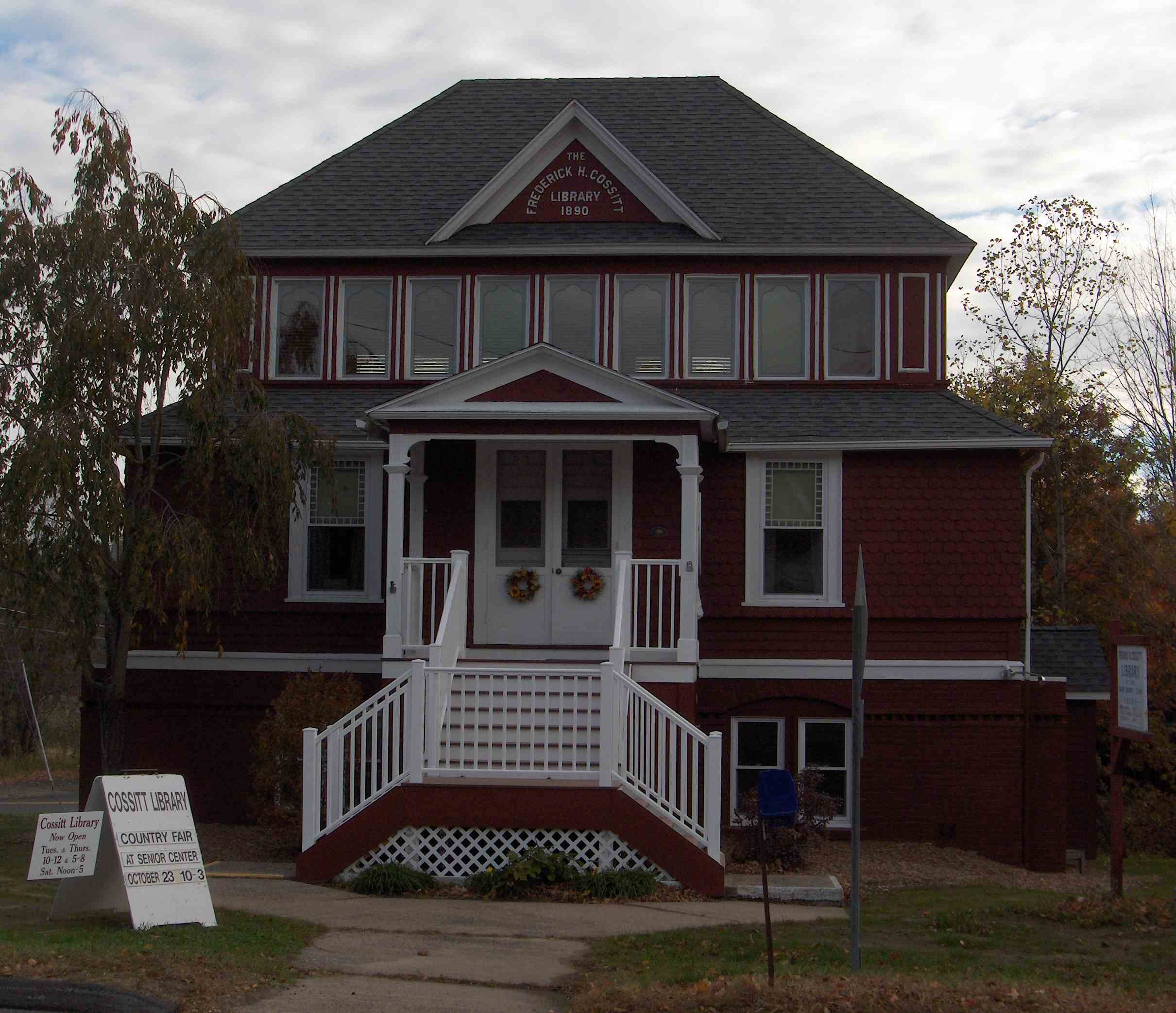 The Frederick H. Cossitt Library, a Queen Anne style building, constructed in 1890.